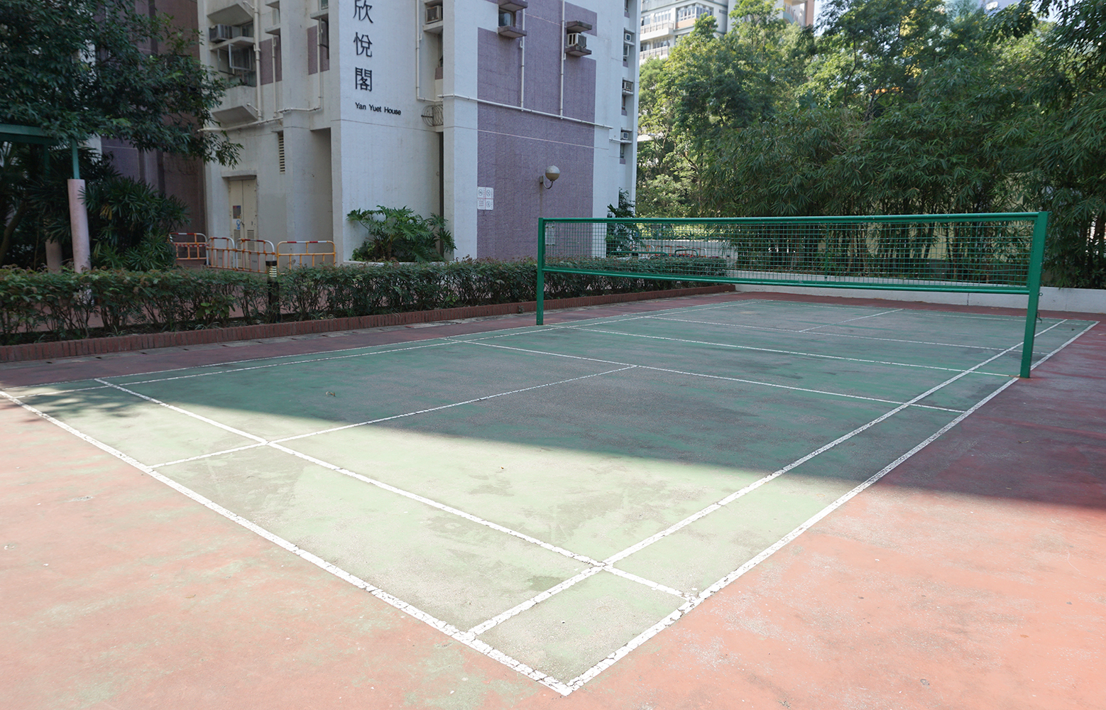 Yan Shing Court in Fanling, Hong Kong.